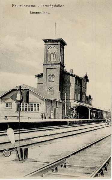 The old railway station of Hämeenlinna, Finland